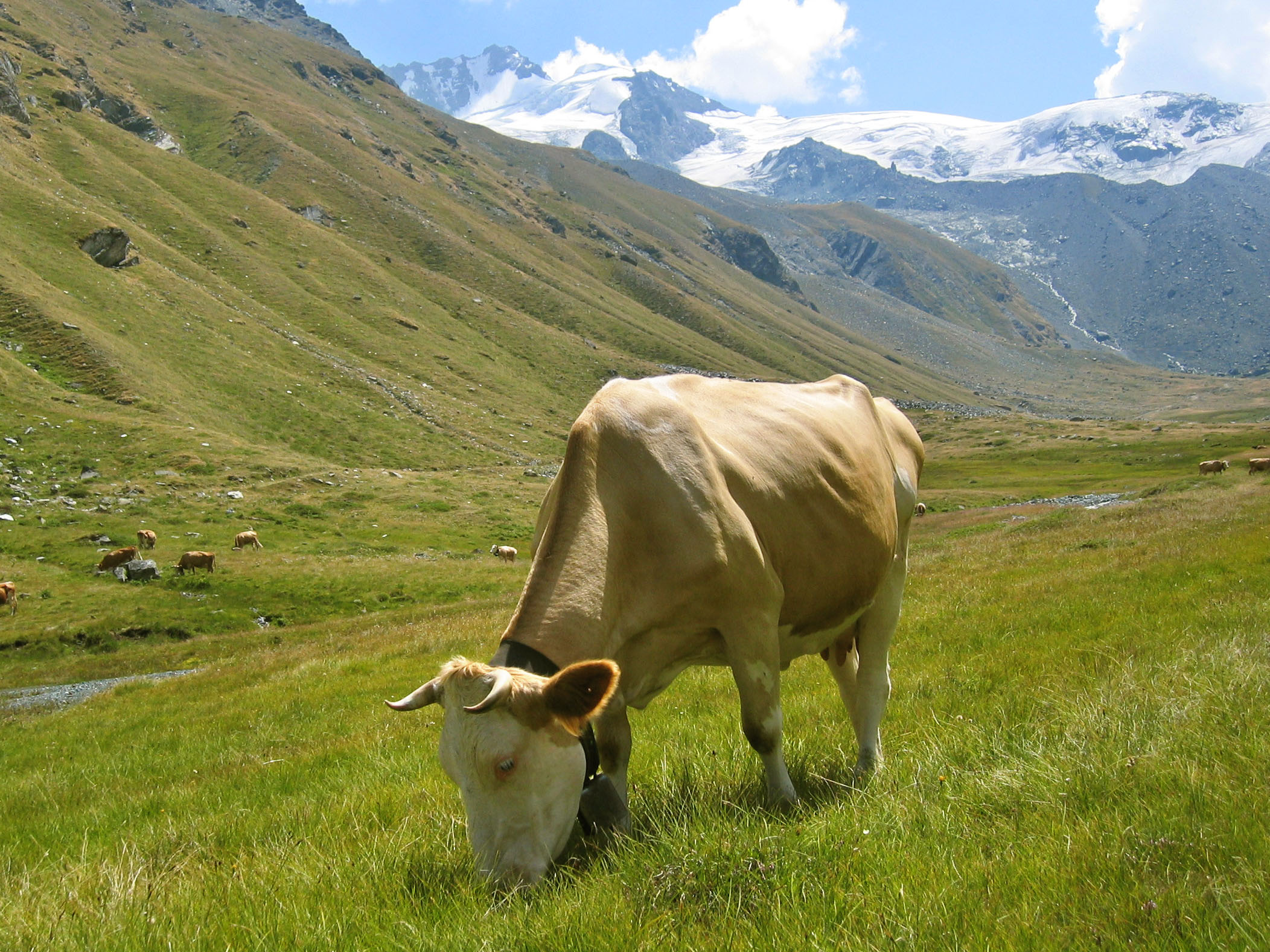 Cow on the Täschalpe, Wallis, Switzerland.